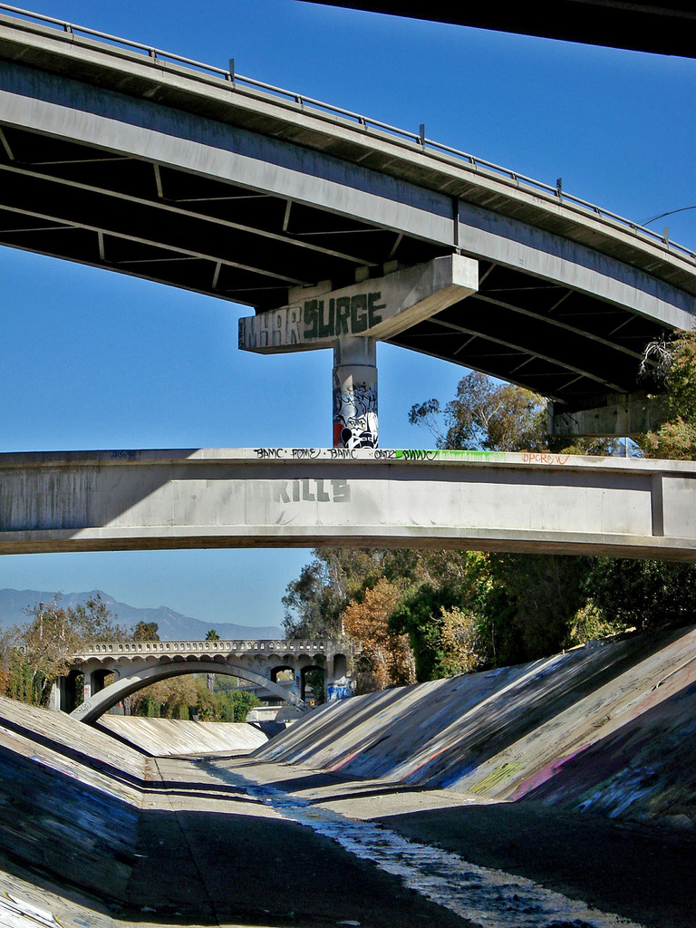 Arroyo Seco - the channelized lower creek section, with graffiti and bridges (Los Angeles County). The curving bridge is the ramp from SR 110 - Arroyo Seco Parkway south to I-5 north. In the background is Avenue 26 over the Arroyo Seco. San Gabriel Mountains in backround. "Gettin Up, small amount of edits to make a little brighter".